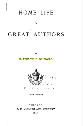 "Home Life of Great Authors", by Hattie Tyng Griswold